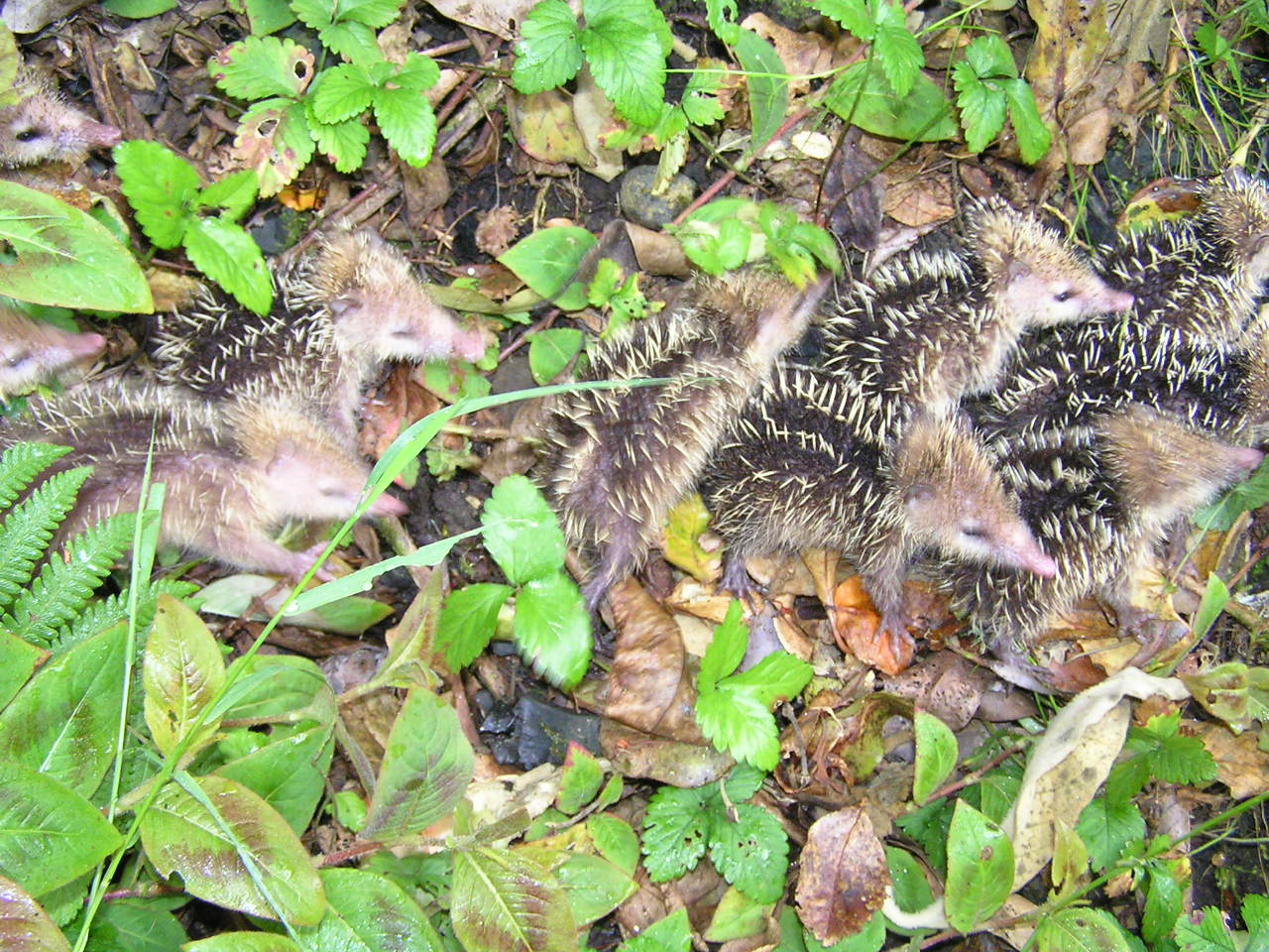 A Common Tenrec family.